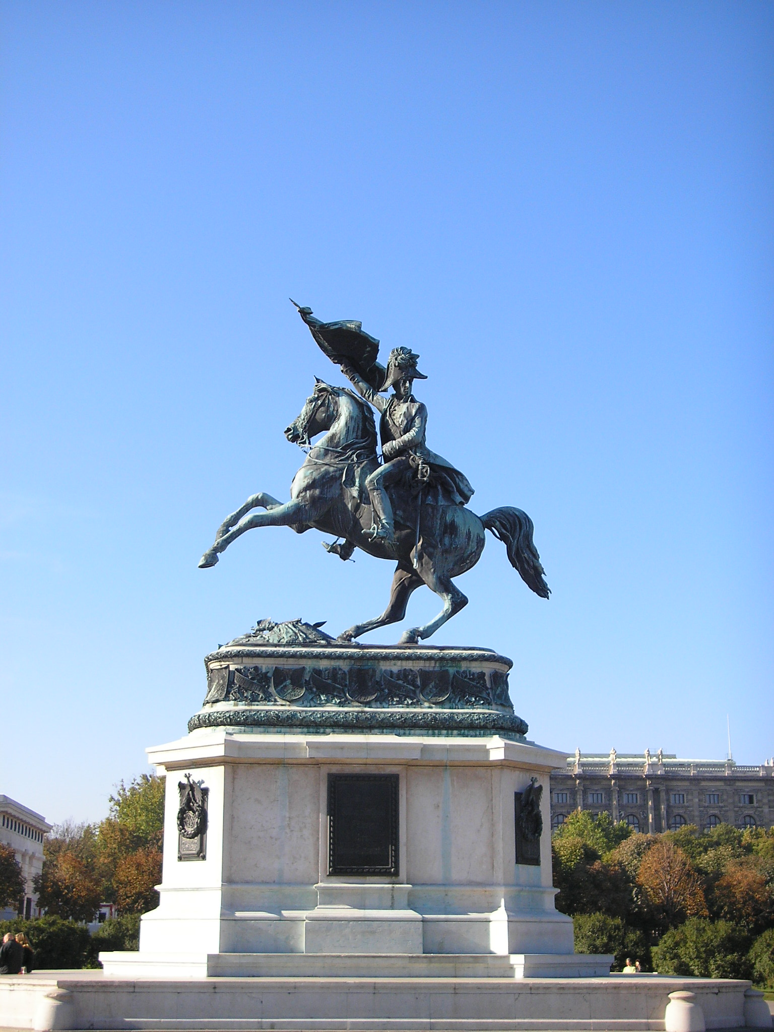 Statue of Archduke Charles of Austria, victor of Aspern over Napoleon. Statue on the Heldenplatz in Vienna.